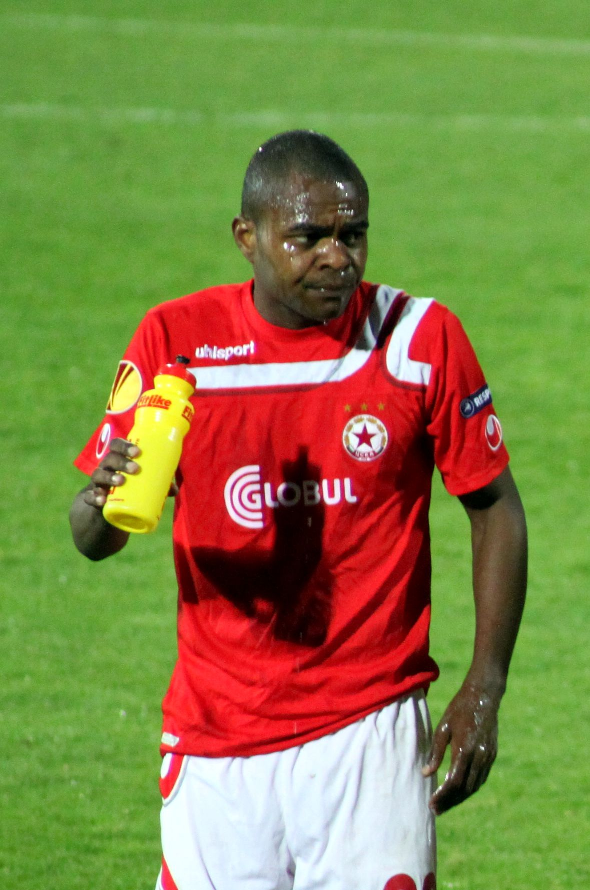 Marcos Antônio Malachias Júnior or simply Marquinhos (born 20 August 1982) is a Brazilian footballer. He currently plays as a playmaker in the midfield for CSKA Sofia[1].